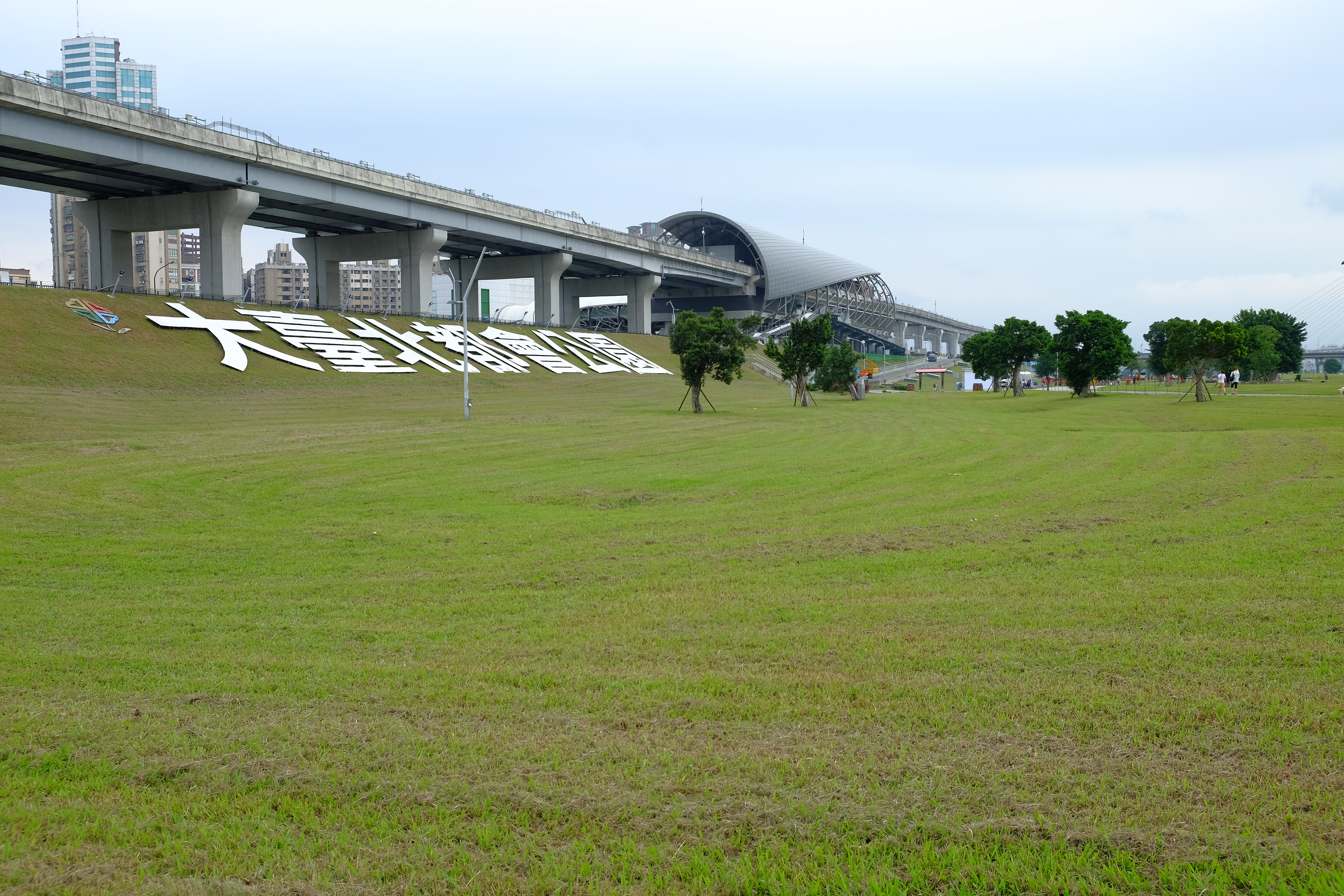 Erchong Floodway